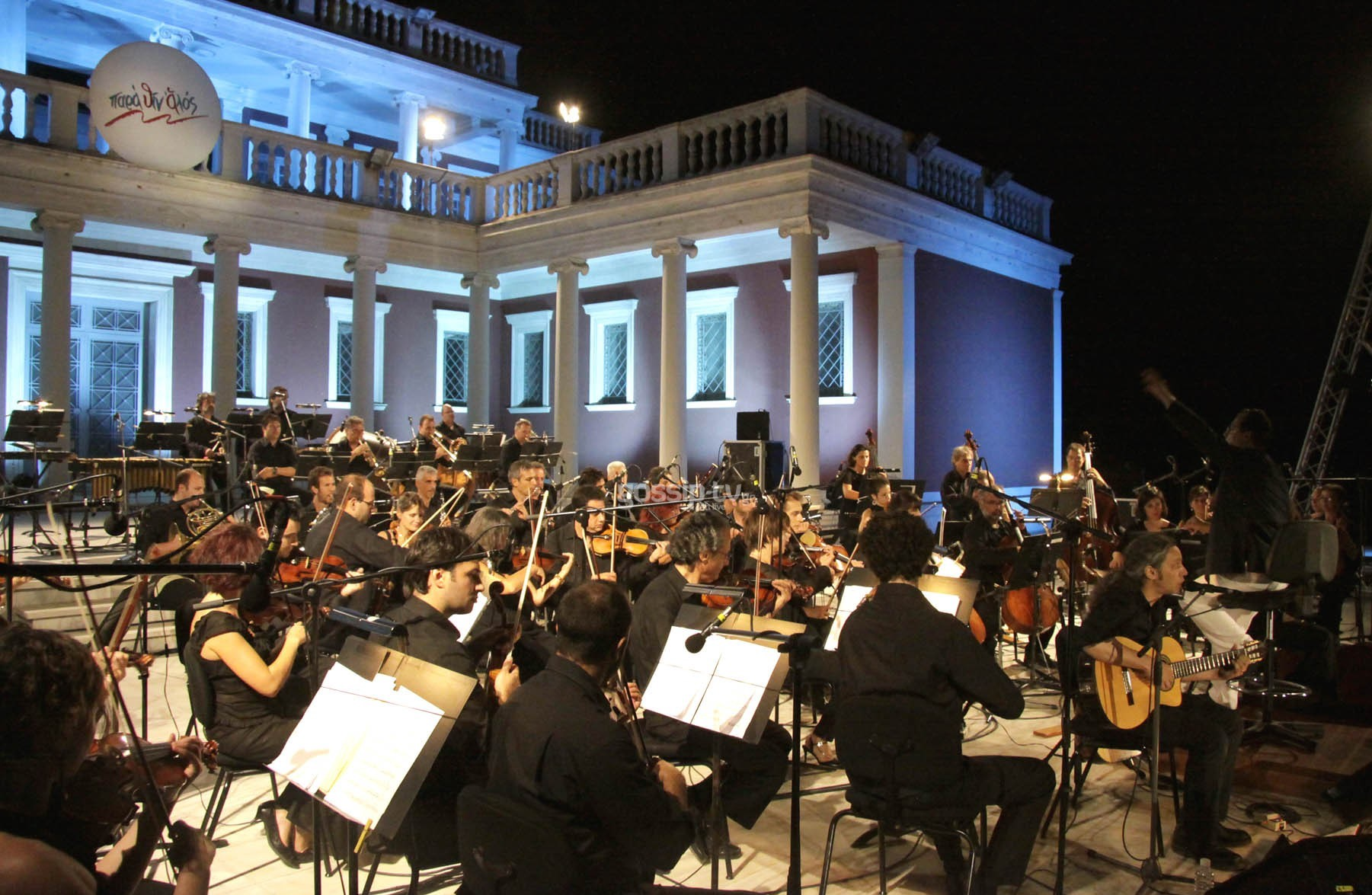 Palataki Thessaloniki